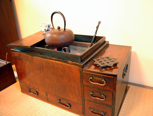 This is a real hibachi. Hibachi have traditionally been used for heating humans, body and soul, in Japan. More recently, these are quite rare. photo taken on a Nikon D70 at 50mm